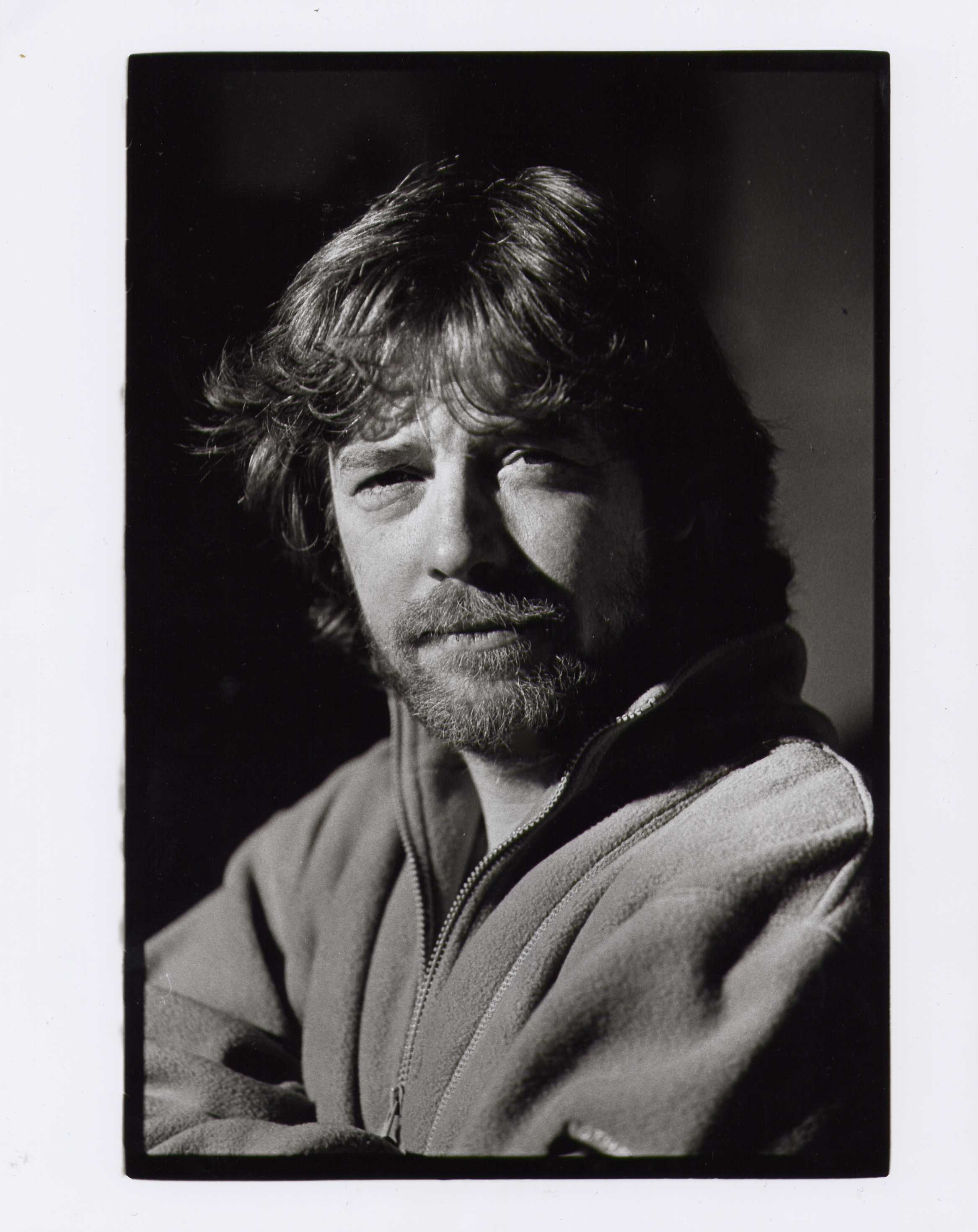 Film Director, Screen writer and Playwright Paul Mercier